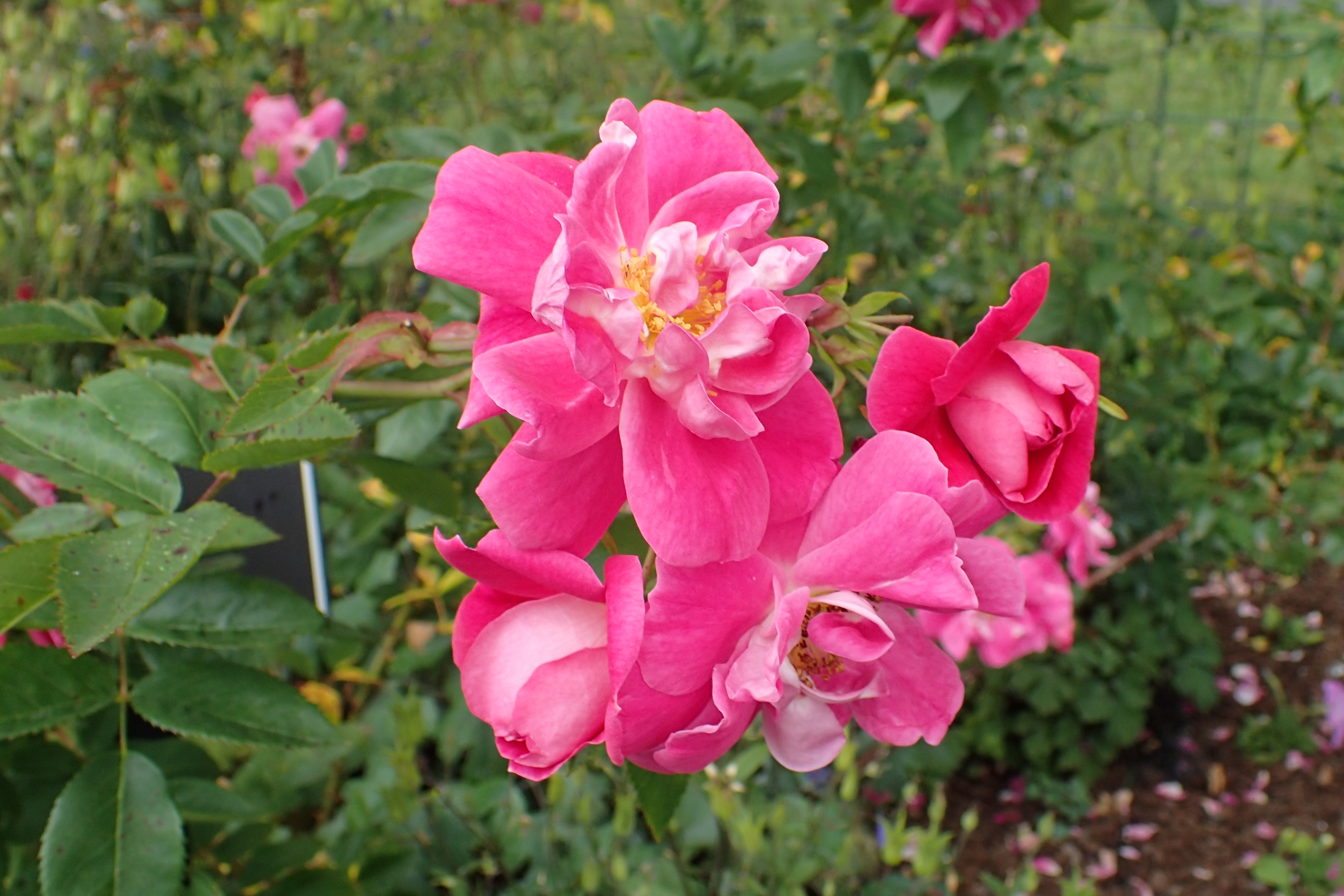 Rosa 'William Baffin' in Auckland Botanic Gardens